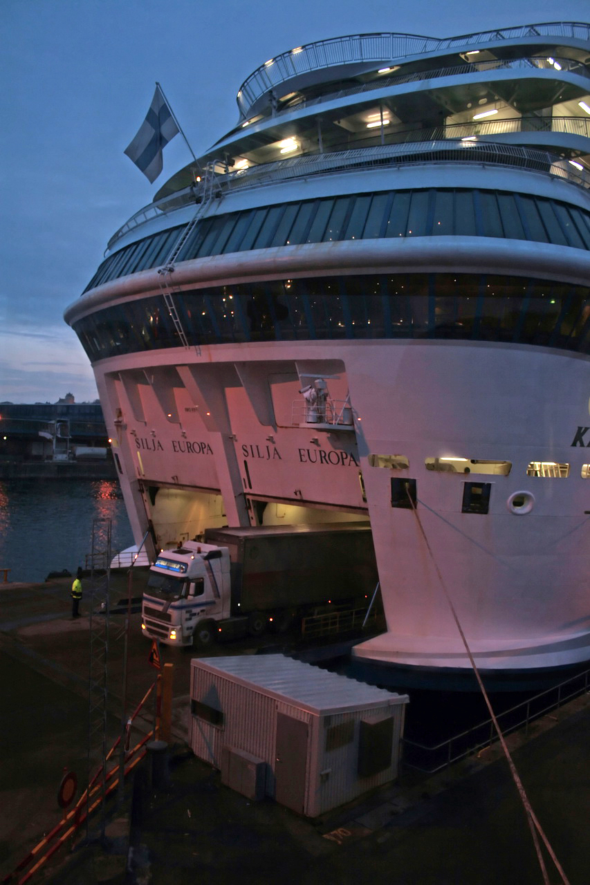 Silja Europa